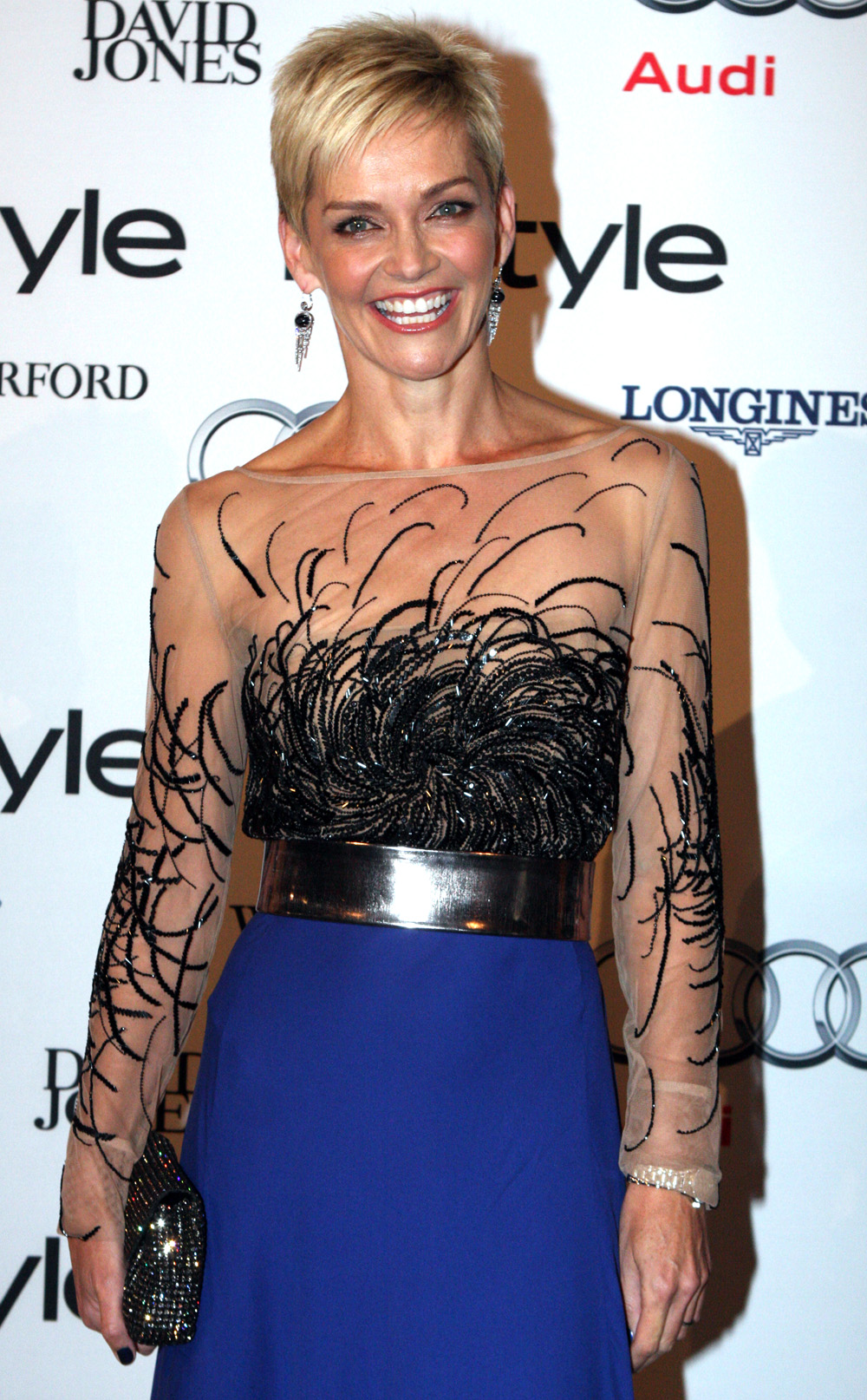 Jessica Rowe